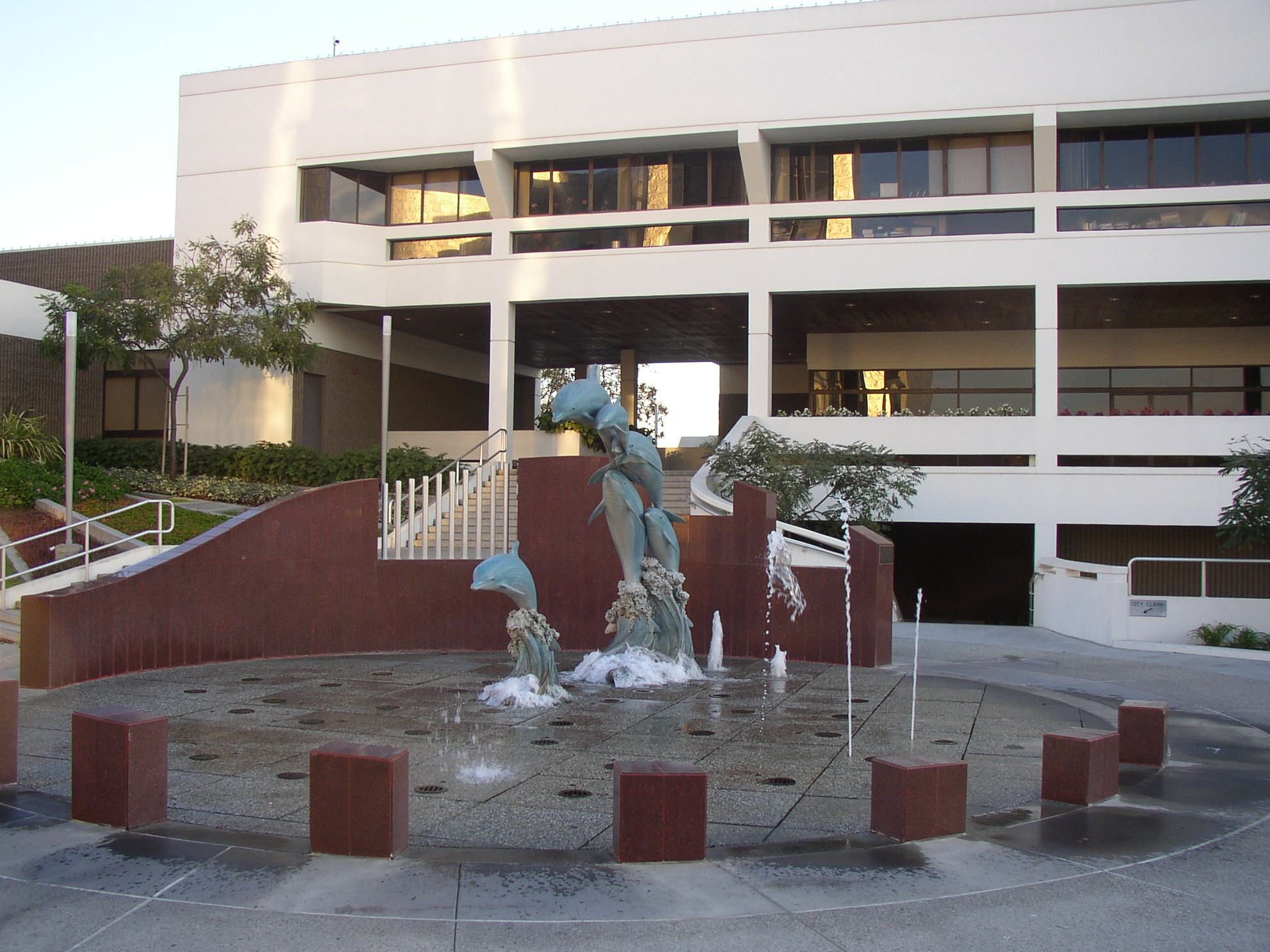 Taken by AllyUnion in front of Cerritos City Hall.